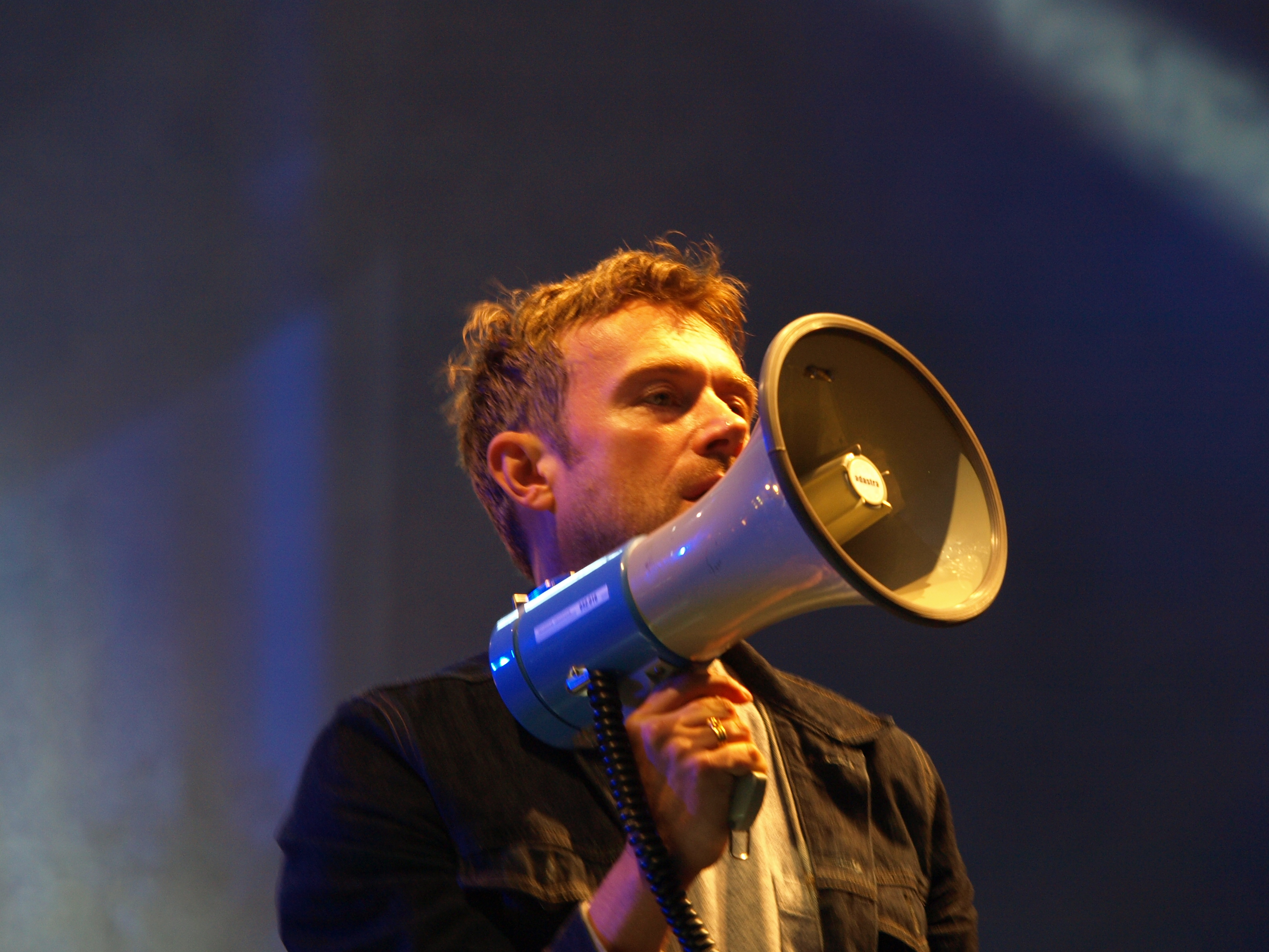 British band Blur live at Provinssirock 2013